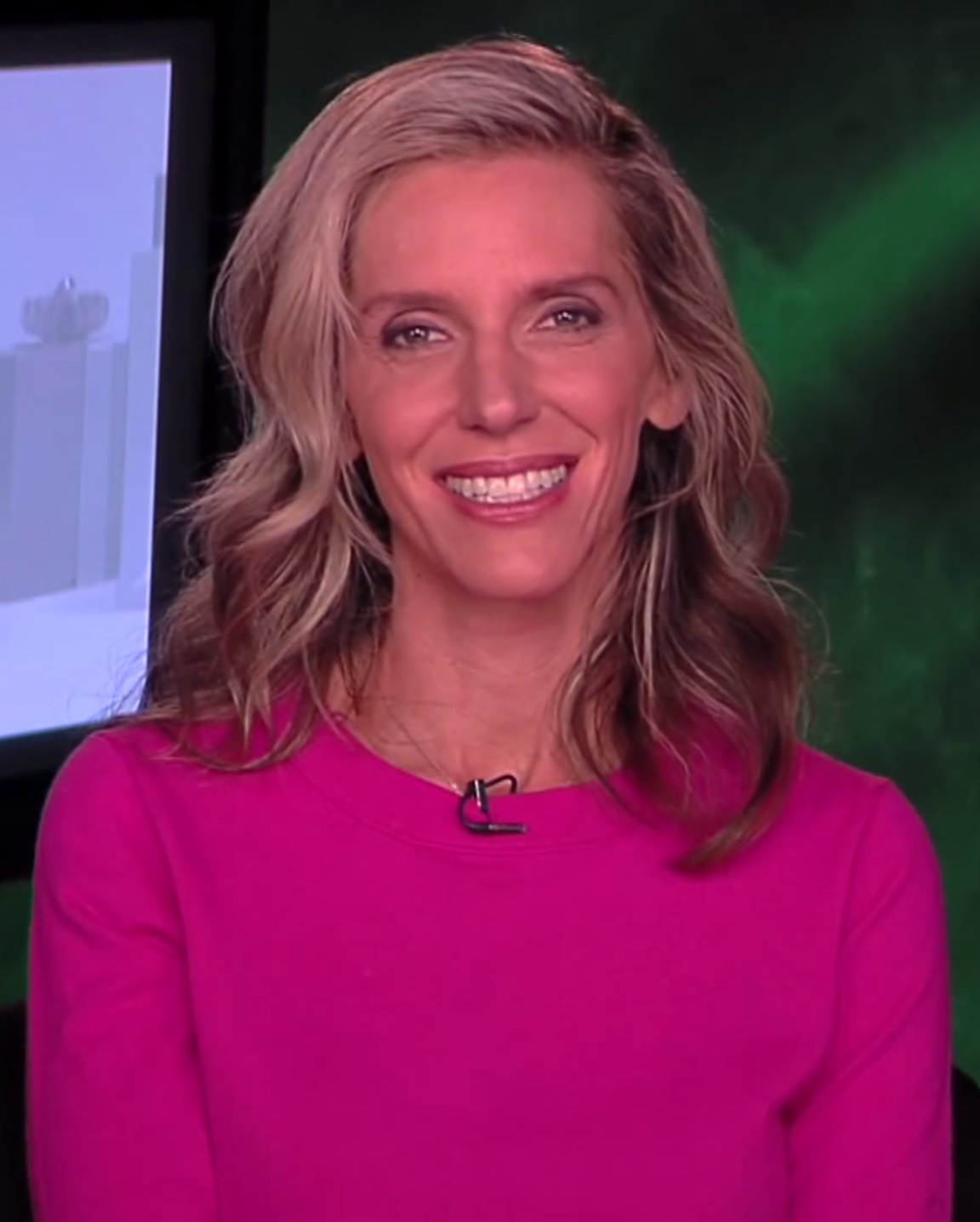 PegCityLovely chats with Jane Buckingham, founder/CEO of Trendera, bestselling author and one of Hollywood's most powerful women, about Westfield's digital gift finder this holiday season!